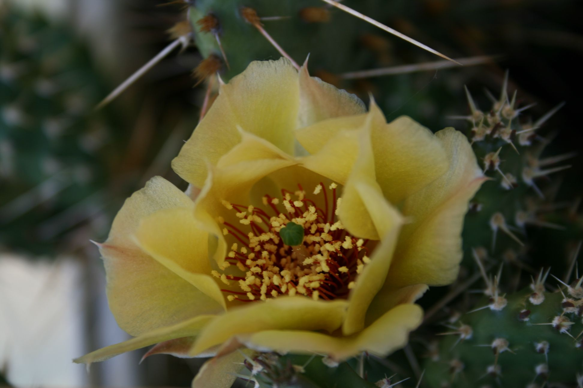 Opuntia arenaria